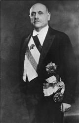 Official portrait of Bechara El Khoury, first president of Lebanon (between 1943 and 1952)